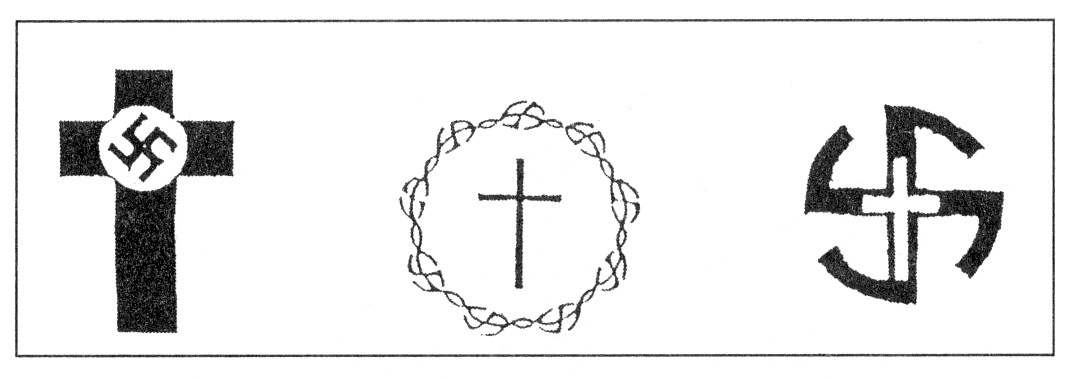 Logos of the "German Christian " (Deutsche Christen) tendency